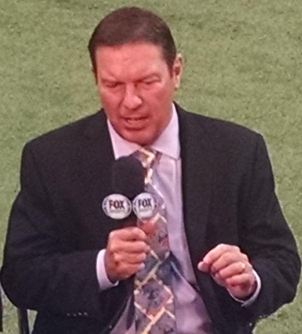 Jeff Montgomery of FOX Sports Kansas City doing the pregame show